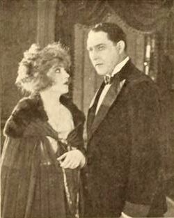 Still from the American film Greater Than Love (1919) with Mollie King and Holmes Herbert, on page 748 of the July 19, 1919 Motion Picture News.